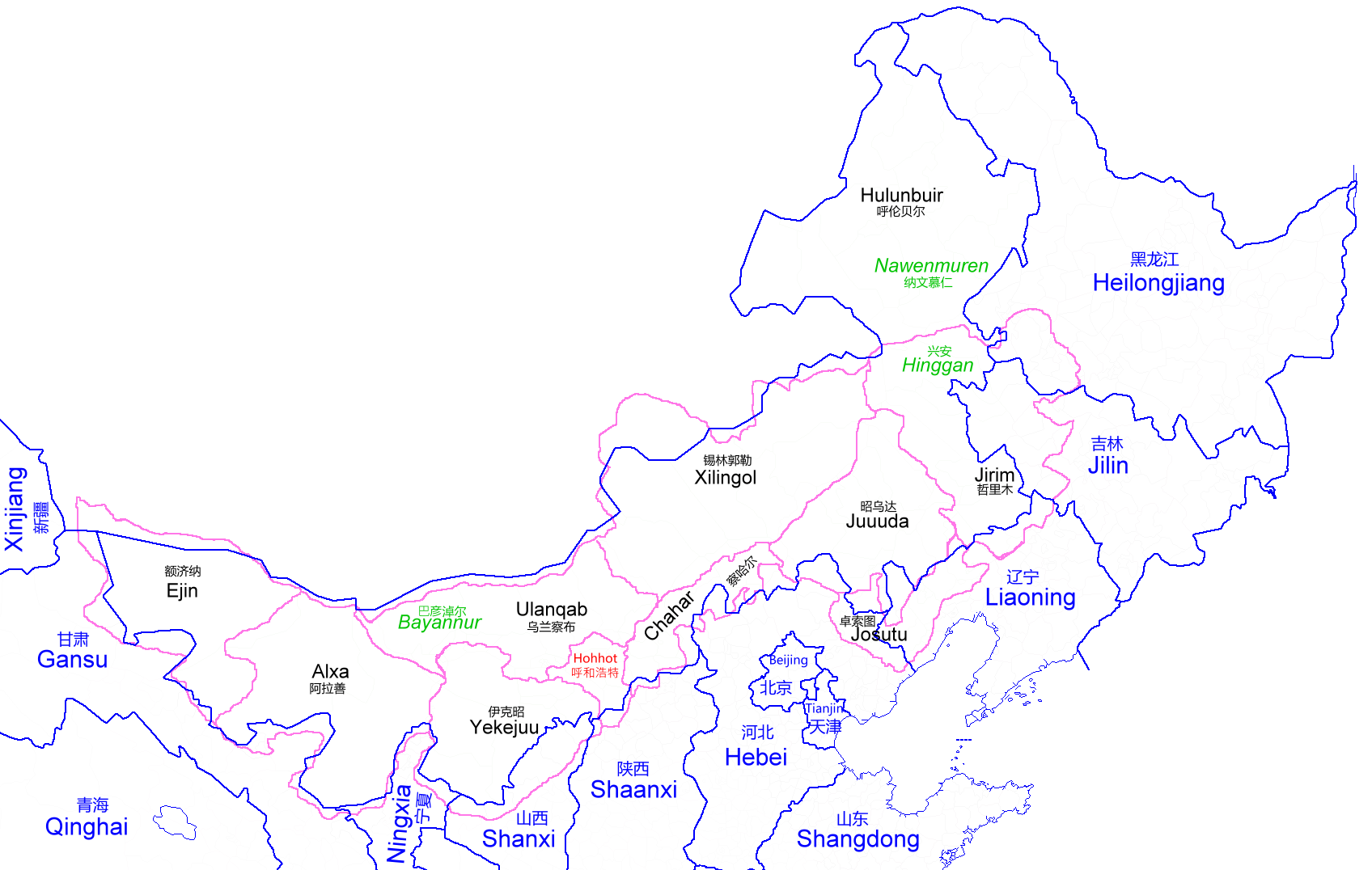 Leagues of Inner Mongolia